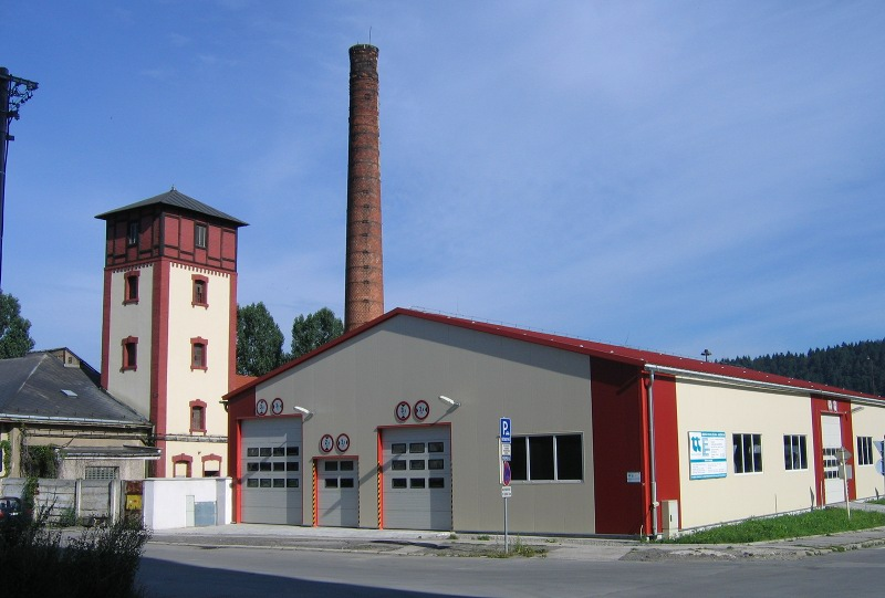 Žilina, safety match factory from 1914/1915. Currently in use by T+T a.s.